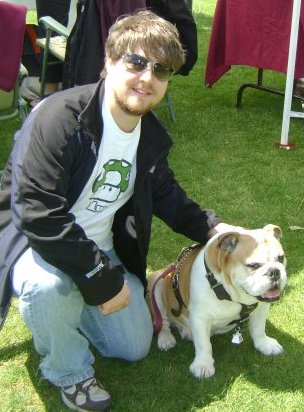 Bully XIX (Tonka) with Mississippi State University student on the campus Drill Field